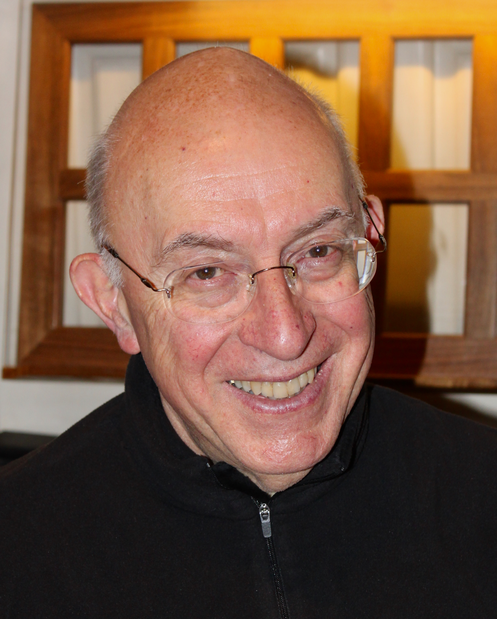 The organist Michael Radulescu at the organ of Klagenfurt cathedral